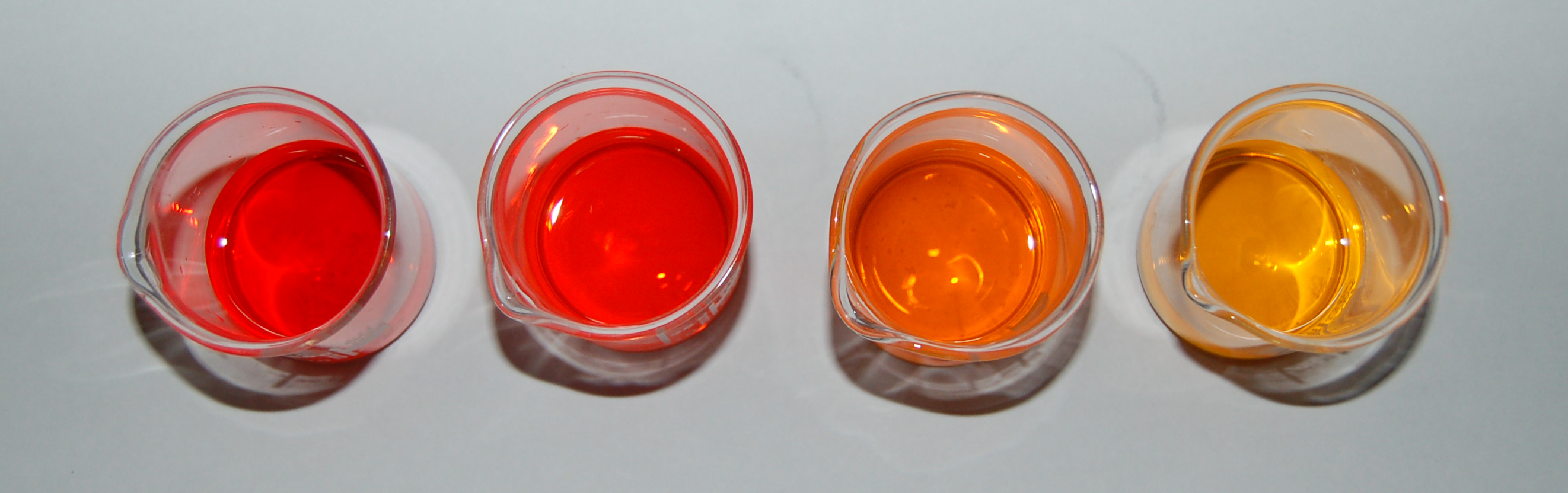 Methyl orange's range of colours in solution. From left to right, pH 2, 3, 4 and 5.